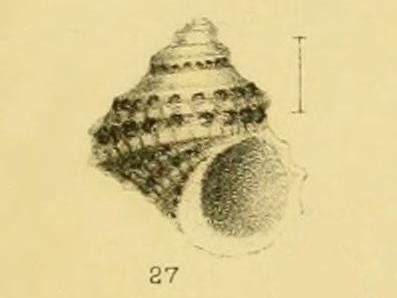 Type figures of Euchelus angulatus Pease, 1868 (＝Vaceuchelus angulatus (Pease, 1868)) from "Insl. Annaa". The original description of the species is here